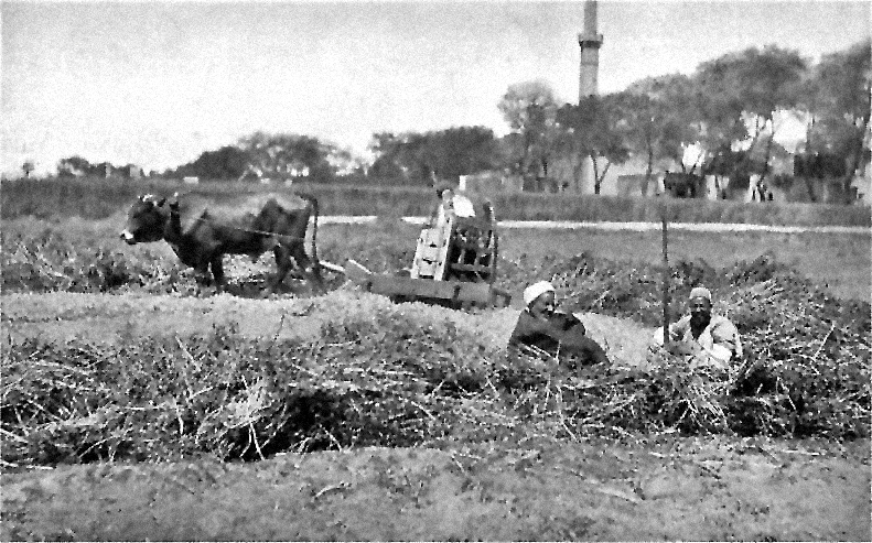 Traditional threshing with a threshing-sledge (or threshing-board) at Heliopolis (Egypt) in 1884